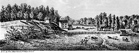 Lispenard's Meadow, near the current northeast corner of Broadway and Spring Street